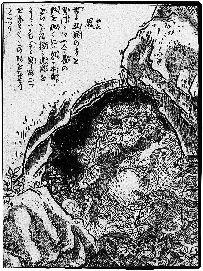 Oni (鬼, the classic Japanese demon, an ogre-like creature which often has horns) from the Konjaku Gazu Zoku Hyakki (今昔画図続百鬼)